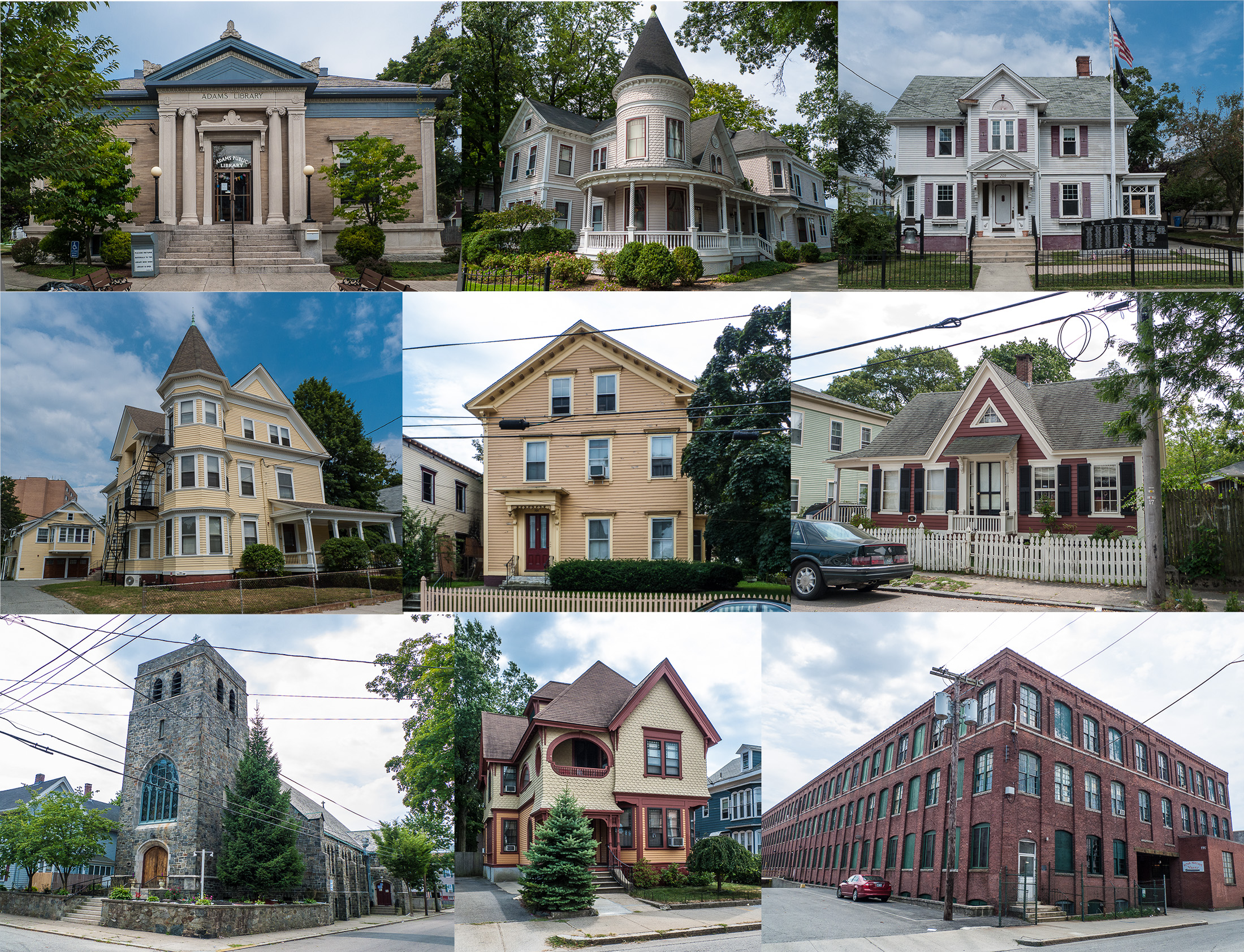 South Central Falls Historic District, Roughly bounded by the Central Falls-Pawtucket boundary and Rand, Summit, Dexter and Broad Sts. Central Falls